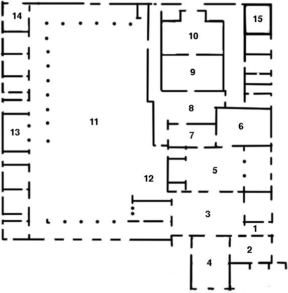 Schematic plan of the Neptune's Bath in Ostia Antica (II,IV,2)